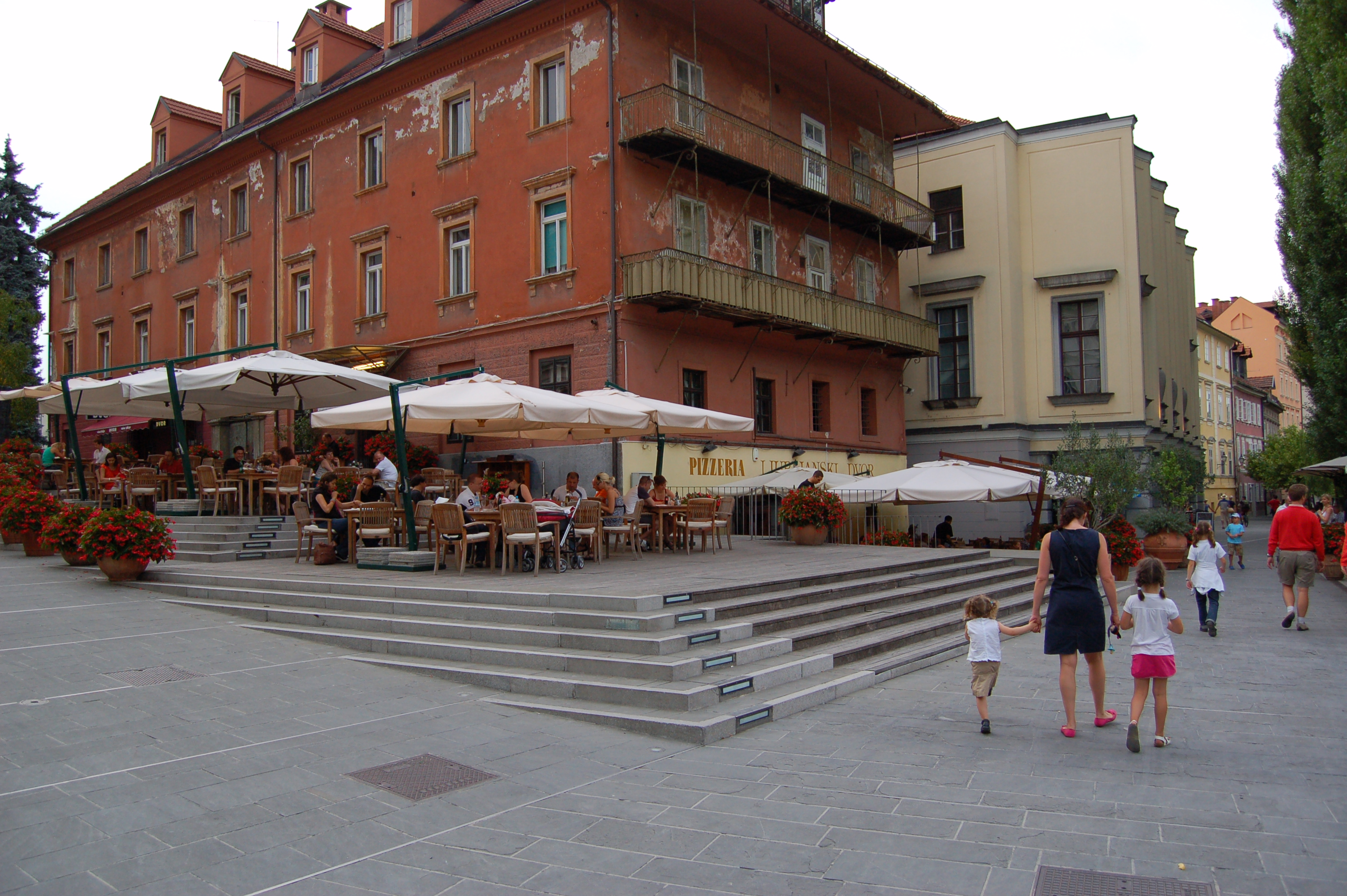 Mansion Square No. 1 (Dvorni trg 1), Ljubljana